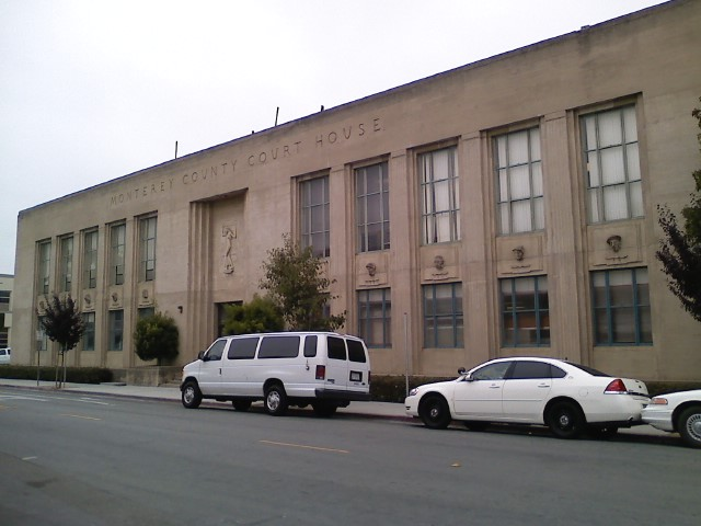 The Monterey County Court House in Salinas, Ca. National Register of Historical Places #08000878. Taken on October 9th, 2009